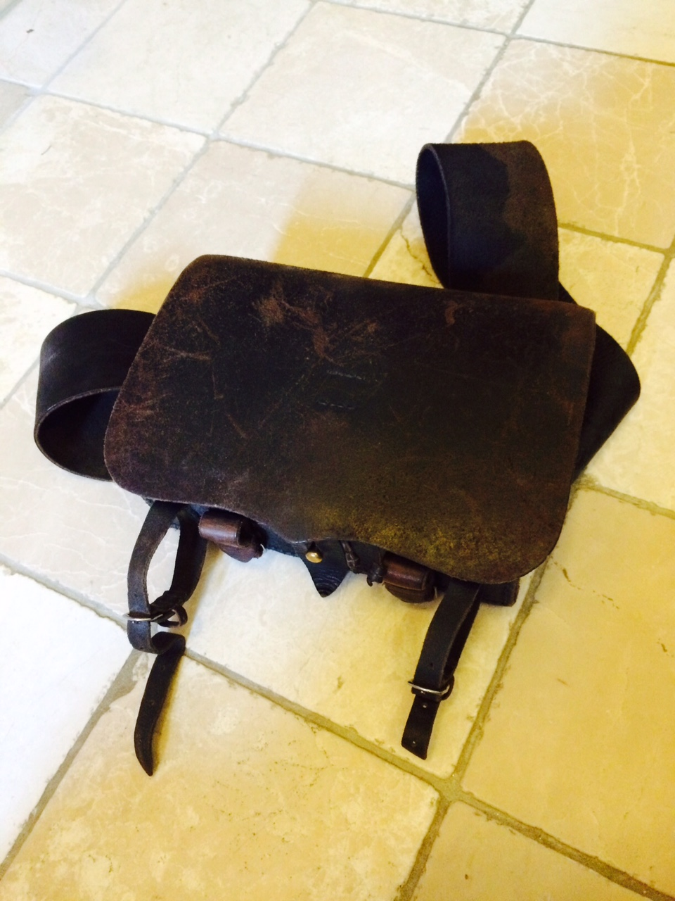 Reproduction of a napoleonic era cartridge box with wooden interior and rough leather shell.